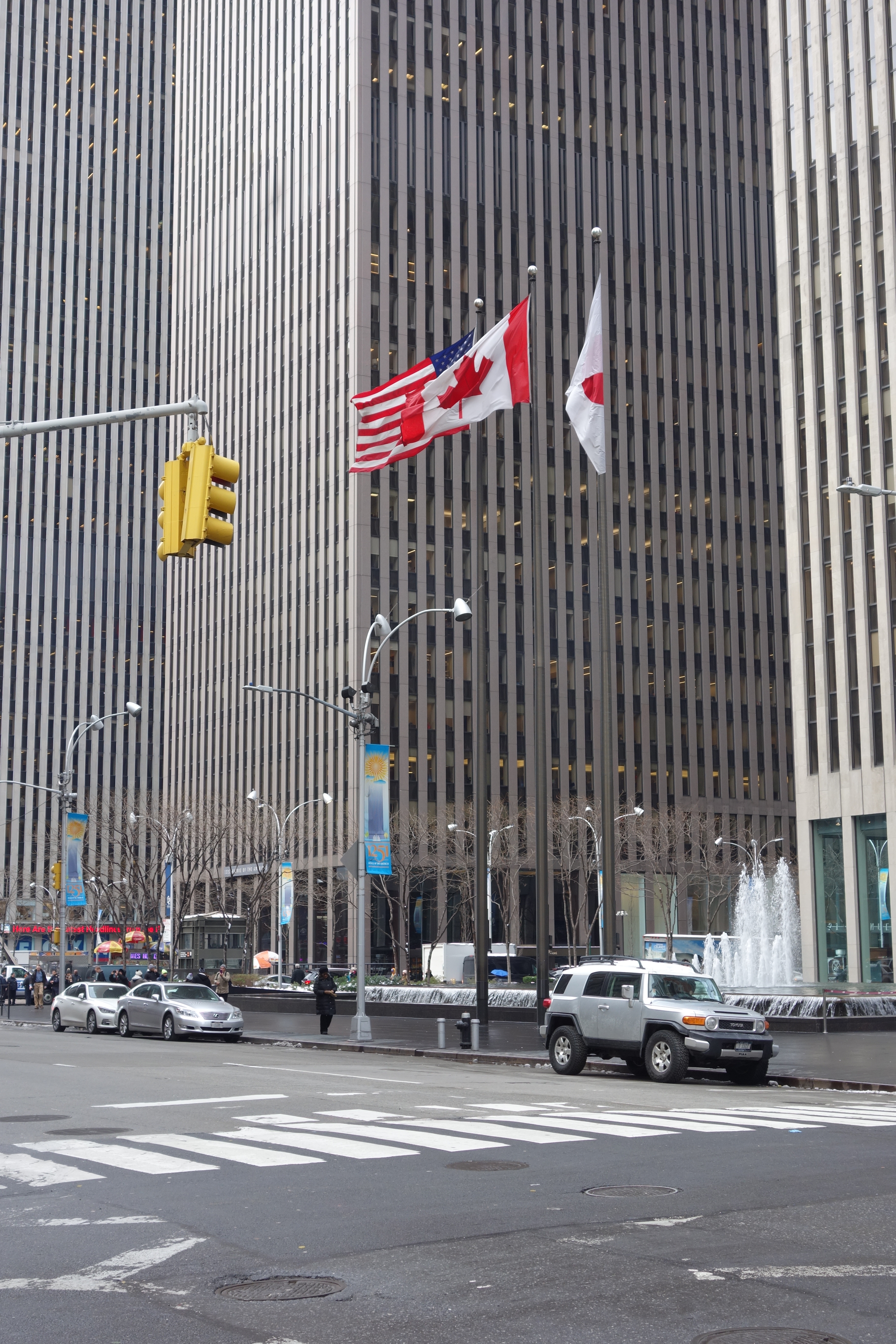 Flags in front of 1251 Avenue of the Americas, at Sixth Avenue and West 50th Street in Rockefeller Center, Midtown Manhattan.